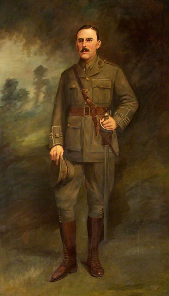 John Rolls, 2nd Baron Llangattock in Monmouth Library, Wales